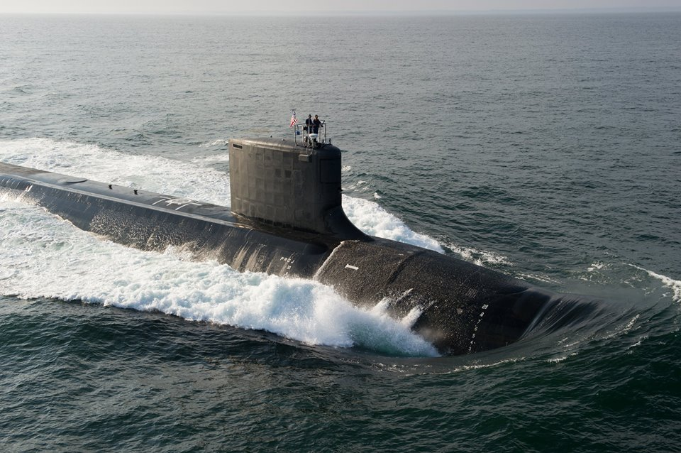 The U.S. Navy submarine USS North Dakota (SSN-784) underway during bravo sea trials in the Atlantic Ocean. It is the 11th ship of the Virginia class, the first U.S. Navy combatants designed for the post-Cold War era.